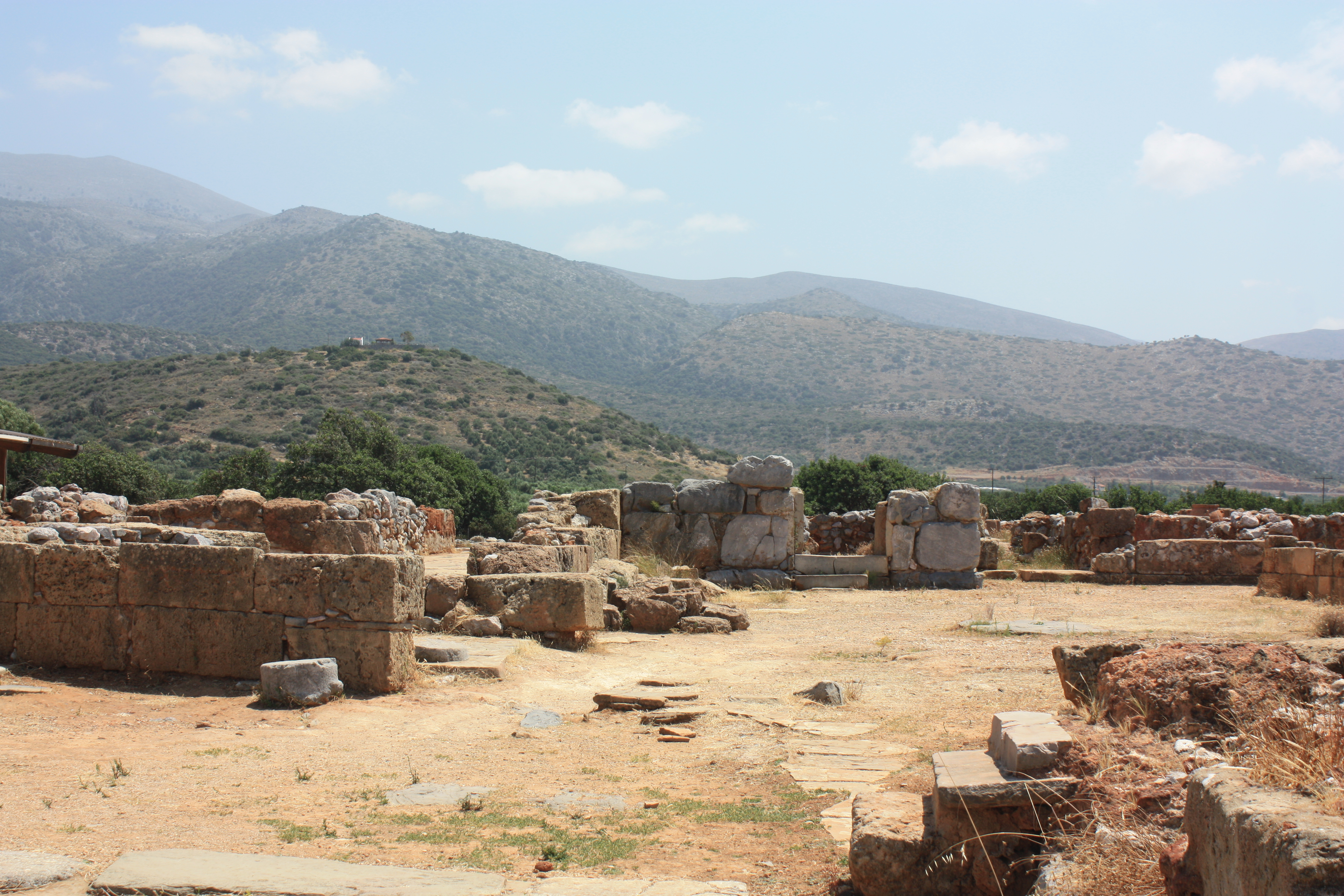 Palace of Malia. Crete. Ruins.